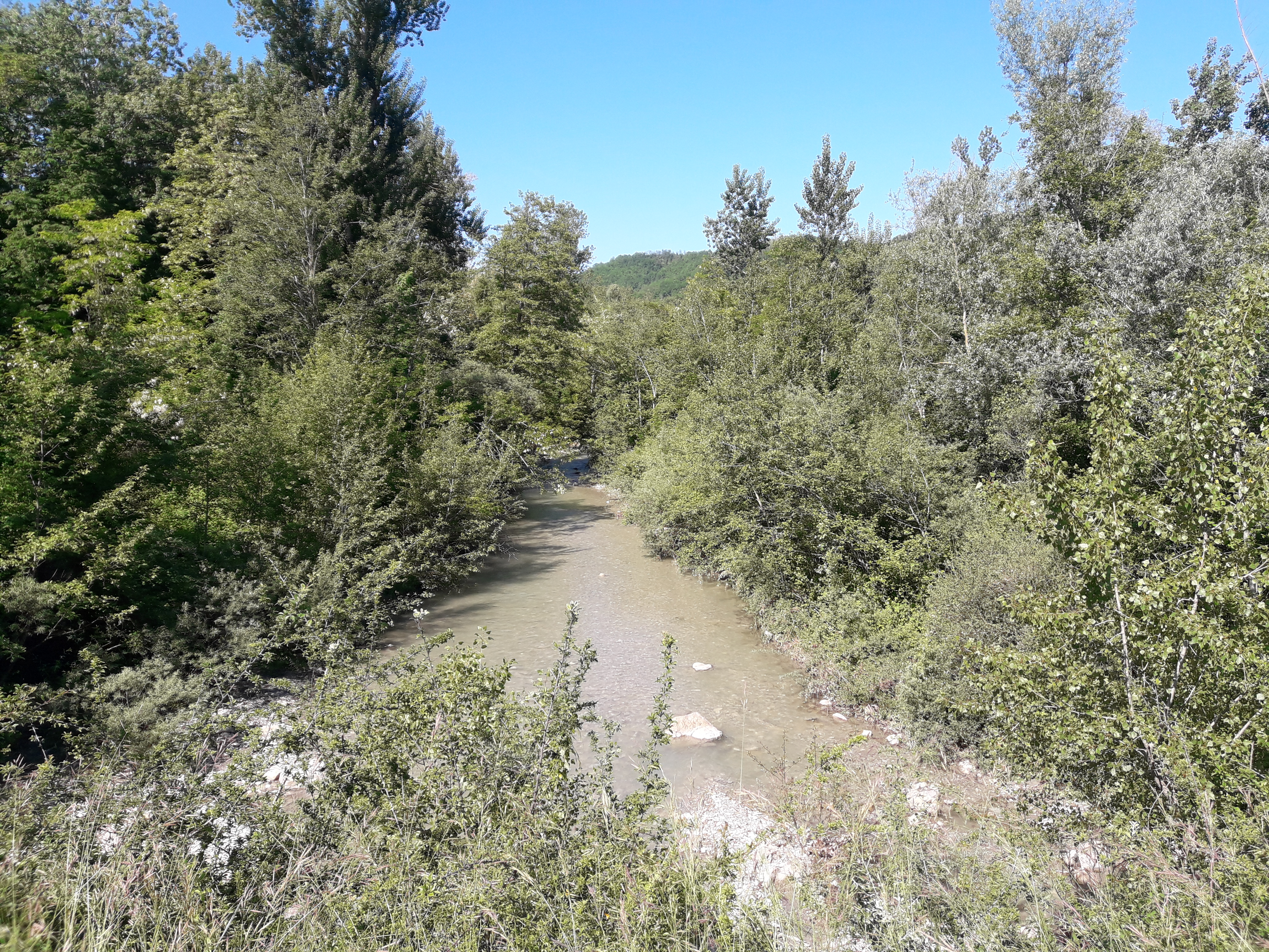 The river Chero near to Veleia, on the border between the municipalities of Gropparello and Lugagnano Val d'Arda, Piacenza, Italy